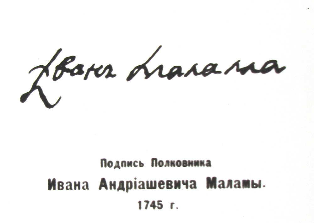 Signature of Ivan Andriashevich Malama